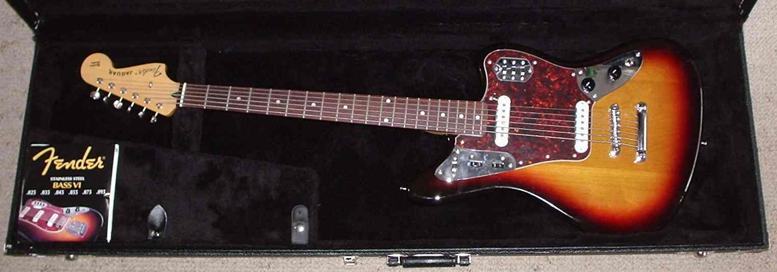 Fender Jaguar Baritone Custom, 2005 model, in a Fender Jazz Bass case. Note that the guitar is a little shorter than the full-scale bass the case was really designed to take, there is space left over at both ends.